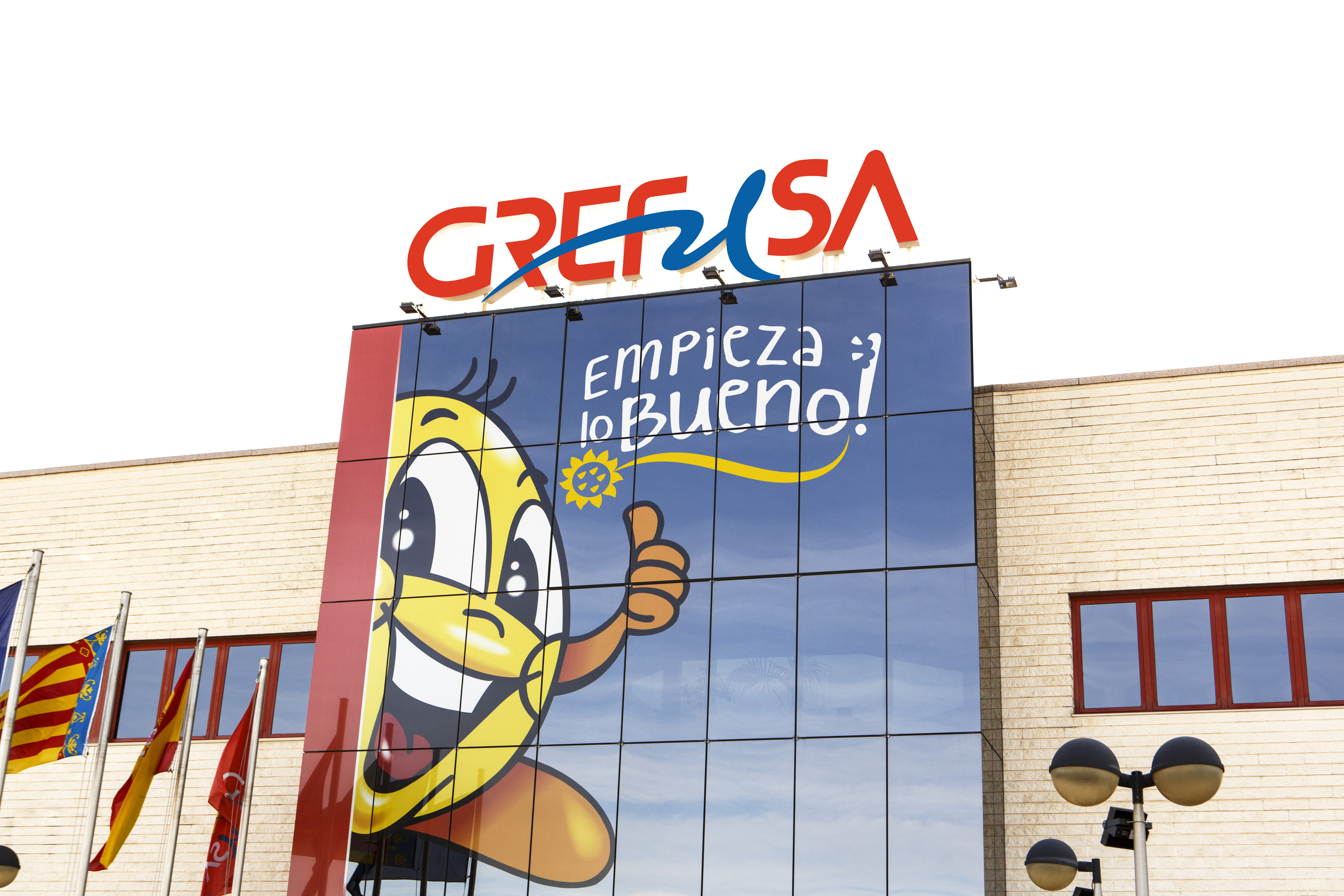 Facade of Grefusa 2018